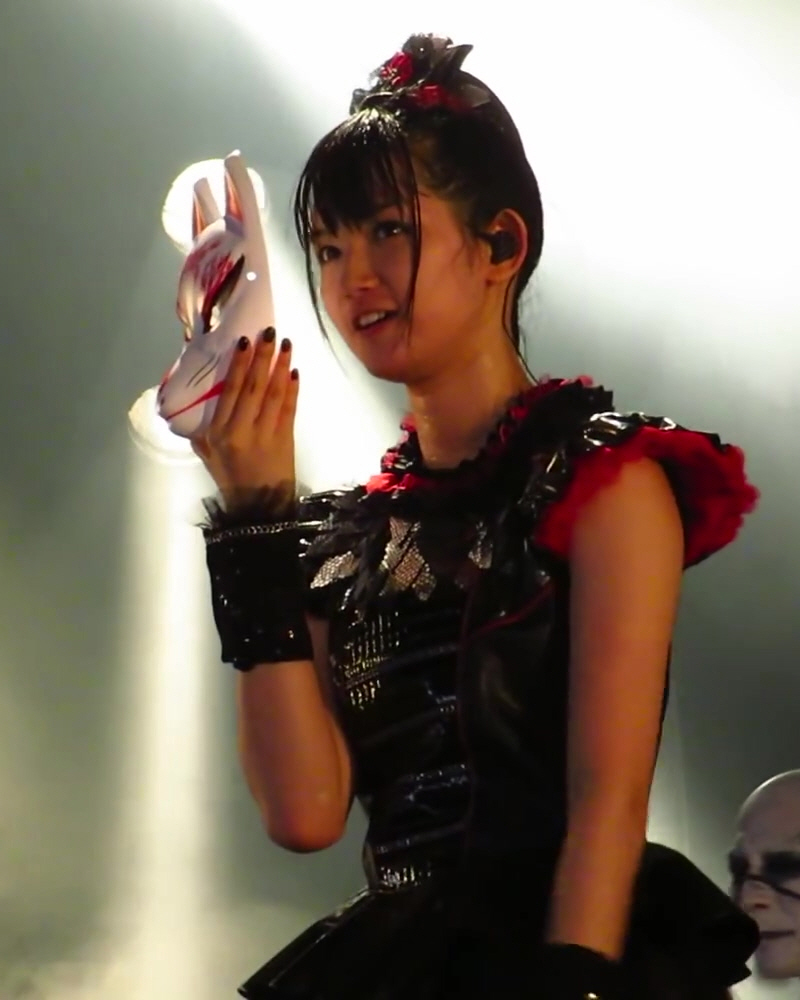 Babymetal - Megitsune live @ Fortarock 2016